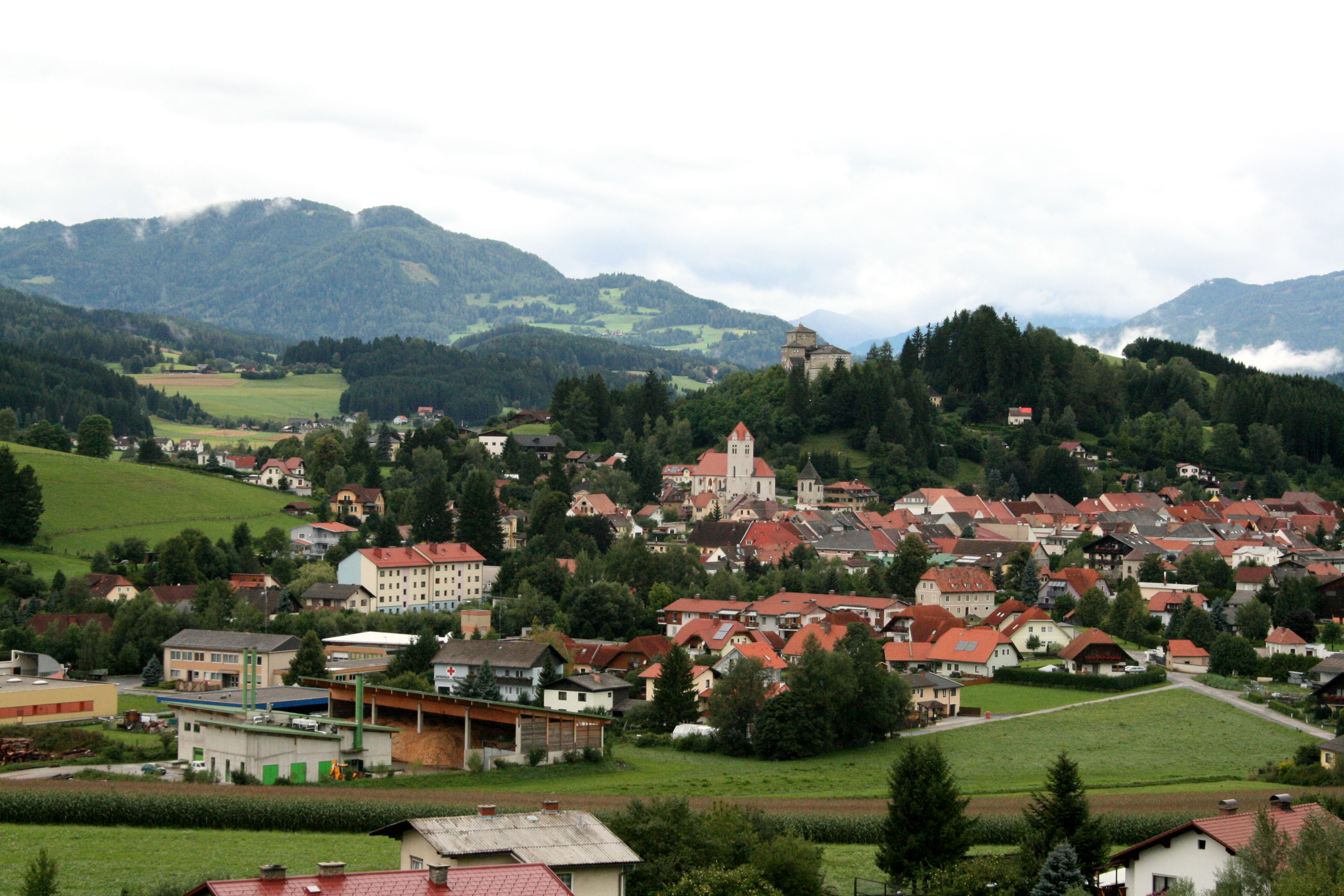 "Neumarkt in Styria", a village in Styria, Austria, Europe